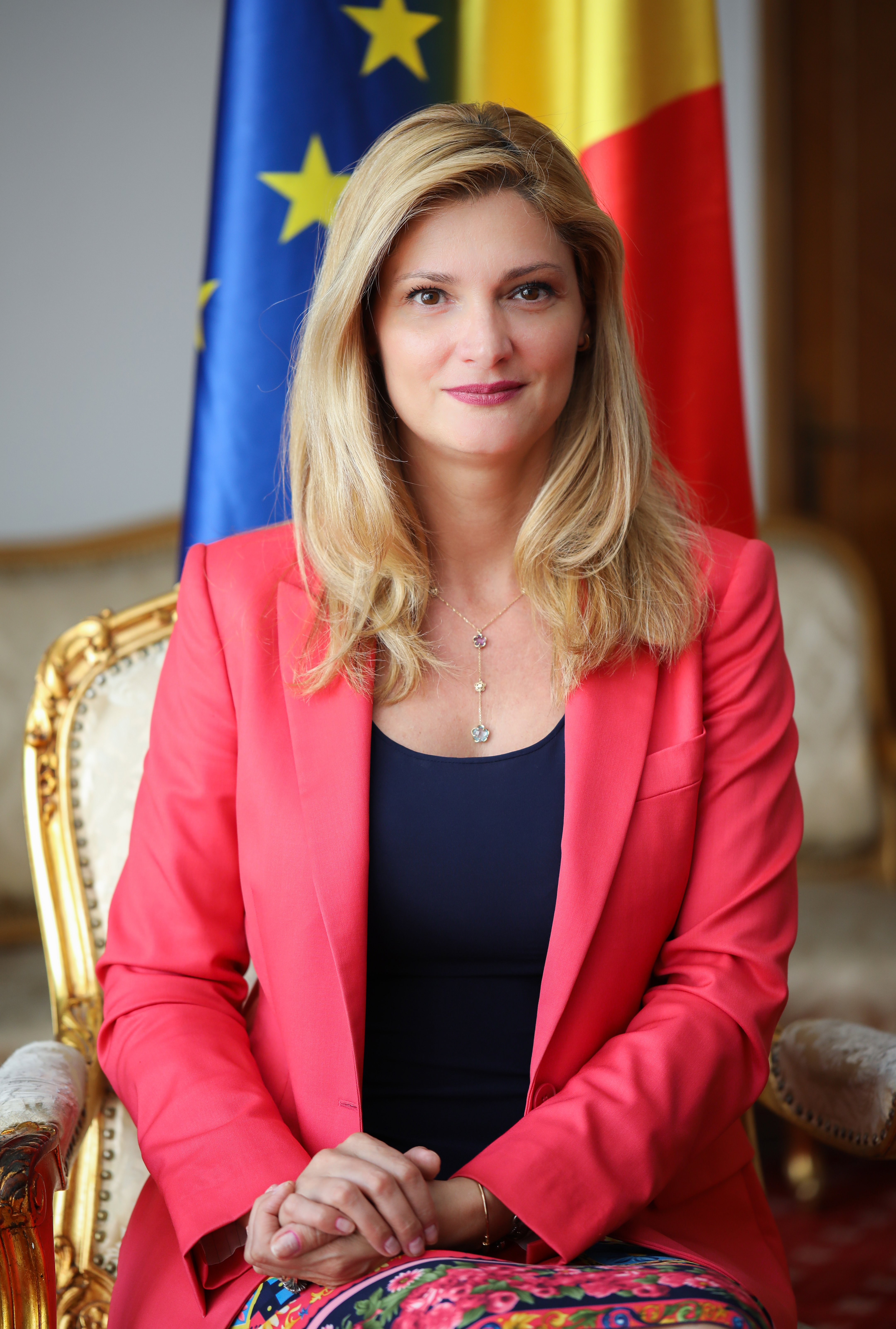 Ramona-Nicole Manescu